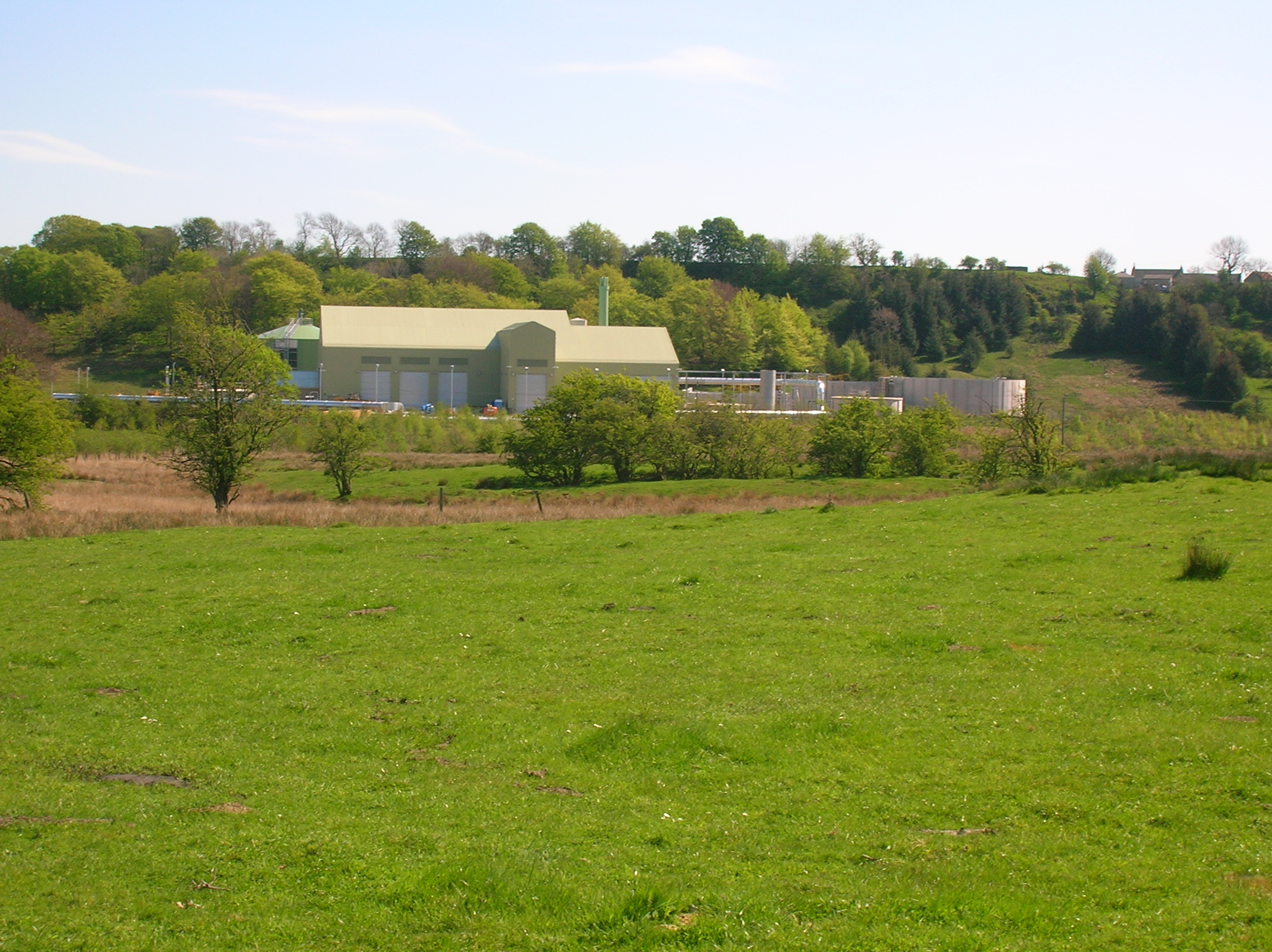 The Barkip Biogas Powerstation, Barkip, North Ayrshire, Scotland